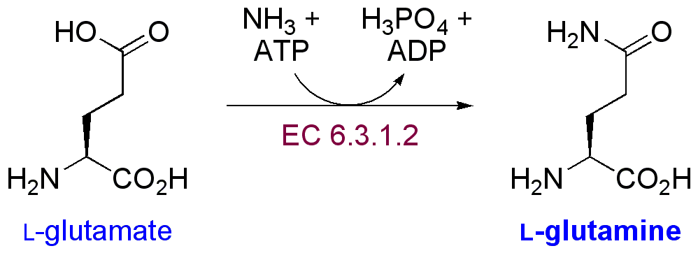 Biosynthesis of glutamine.